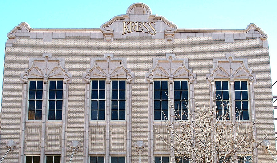 The upper level of the S. H. Kress building in Lubbock showing the characteristic architecture of the stores. Picture taken by Inky for the purposes of the company's article.